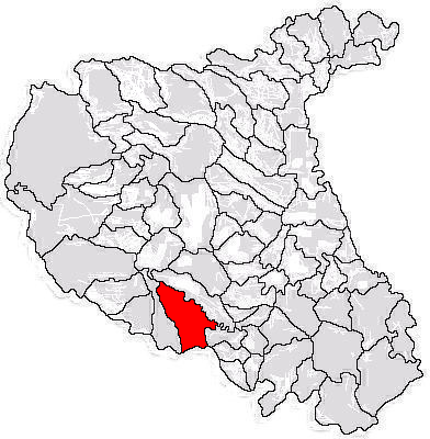 Map with limits of commune